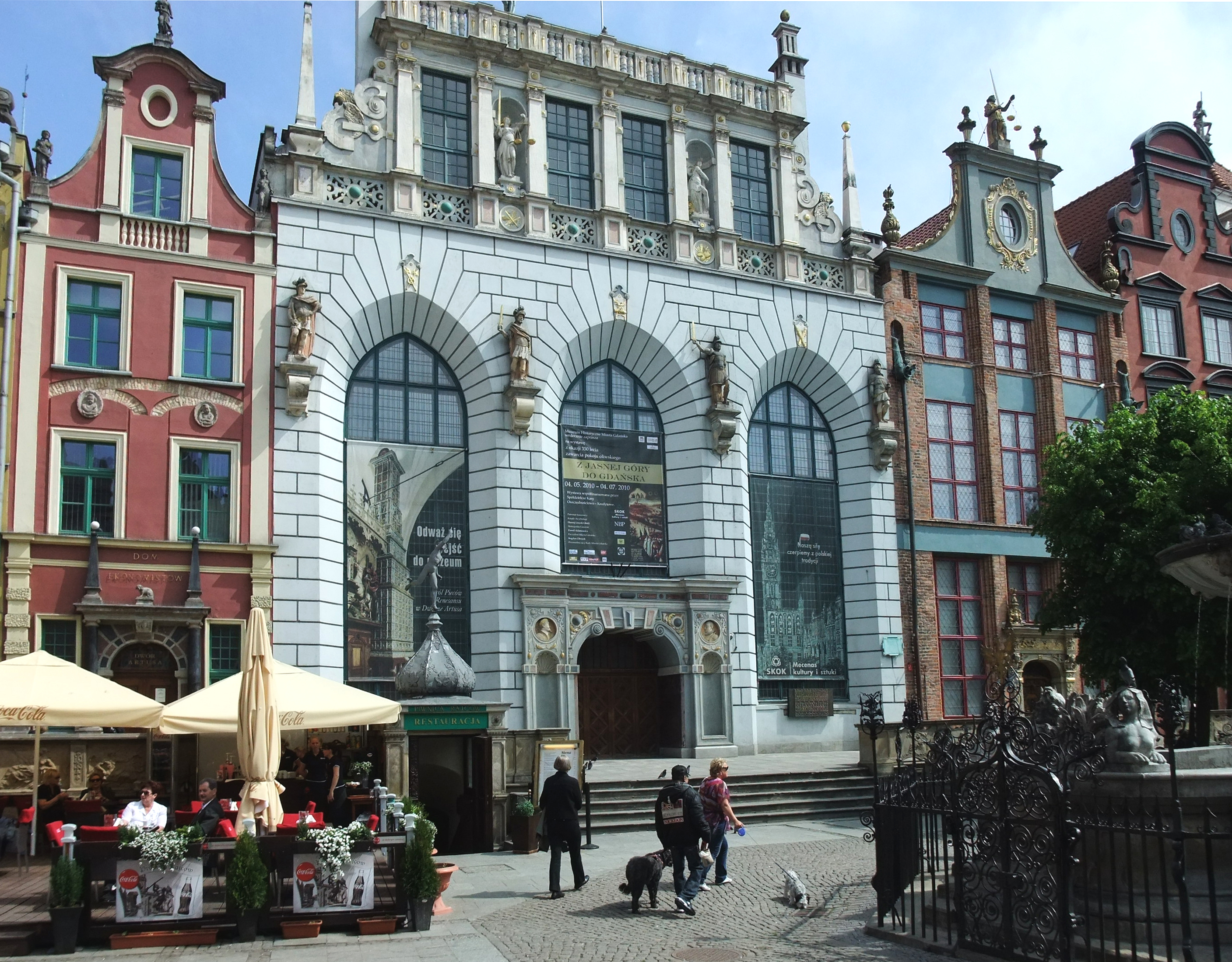 Artus Court in Gdańsk, Poland